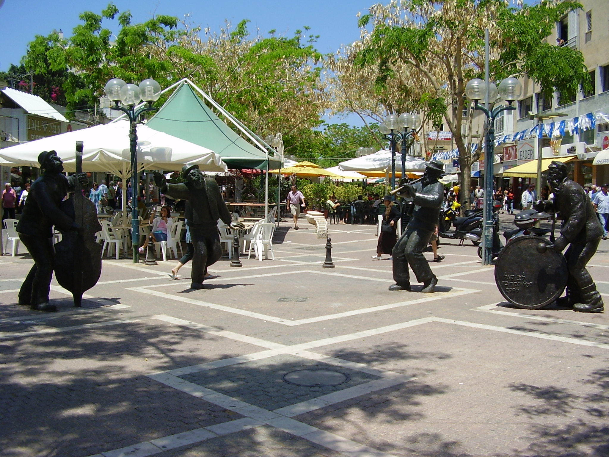 Statue of Klezmorim In Netanya, Israel